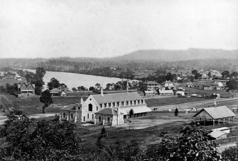 First Brisbane Grammar School, Roma St, 1874. This building was situated on the railway side of the road at approximately the junction of Roma, George and Herschell Streets. The foundation stone was laid on 29 February, 1868 by Prince Alfred, later Duke of Edinburgh. The school was formally opened on 1 February 1869. Soon afterwards the Ipswich to Brisbane railway was built as far as Roma Street and growth of railway activities forced the Trustees to move the school to its present site in Gregory Terrace. The first site is now part of the Roma Street Railway Station complex, and the school building was used for some time as Railway Dept. Offices. (Description supplied with photograph) Photographer: J. Deasley, Queen Street, Brisbane.